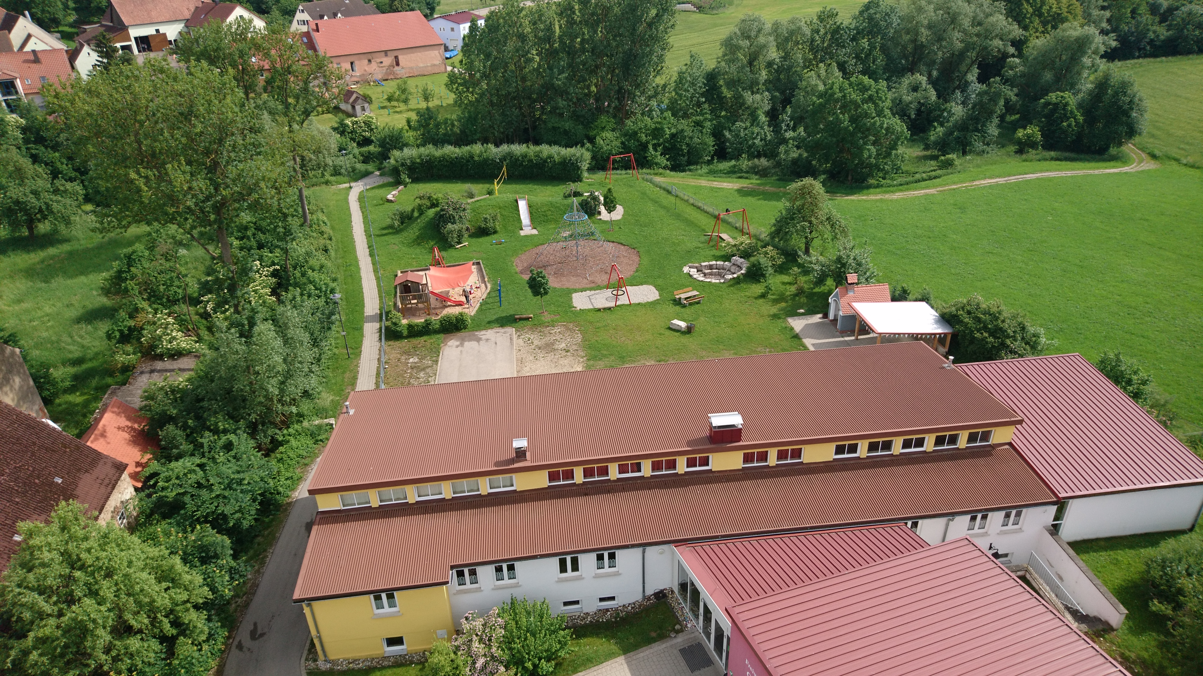 This picture was taken from the turntable ladder of the fire department Wassertrüdingen. The turntable ladder was set up in front of the fire department Geilsheim. It shows the community center (formerly school) and the playground after the village renewal.